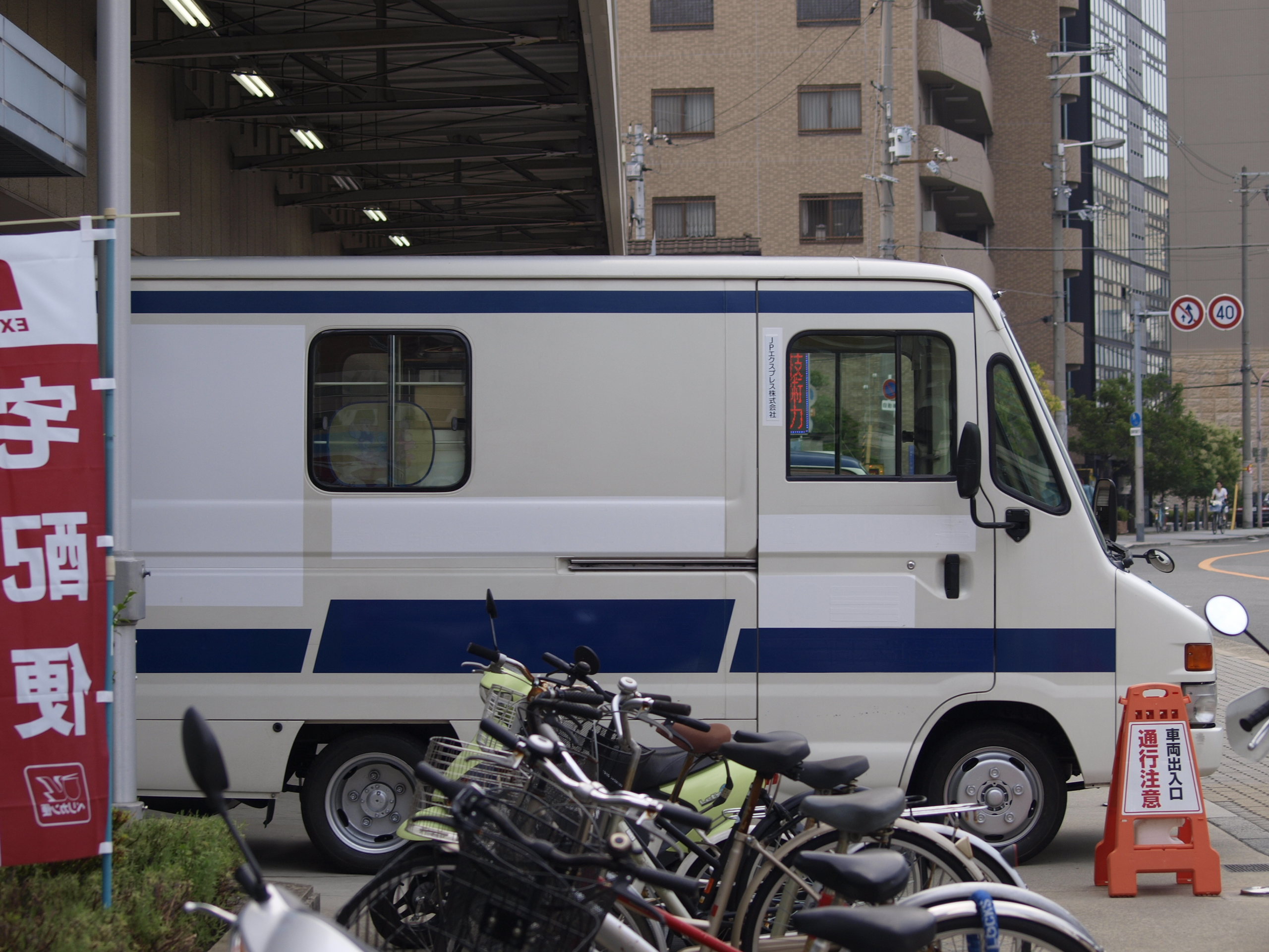 A Pelican delivery vihecle is used since Nippon express